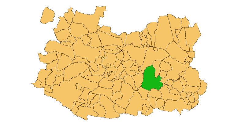 Map of Valdepeñas